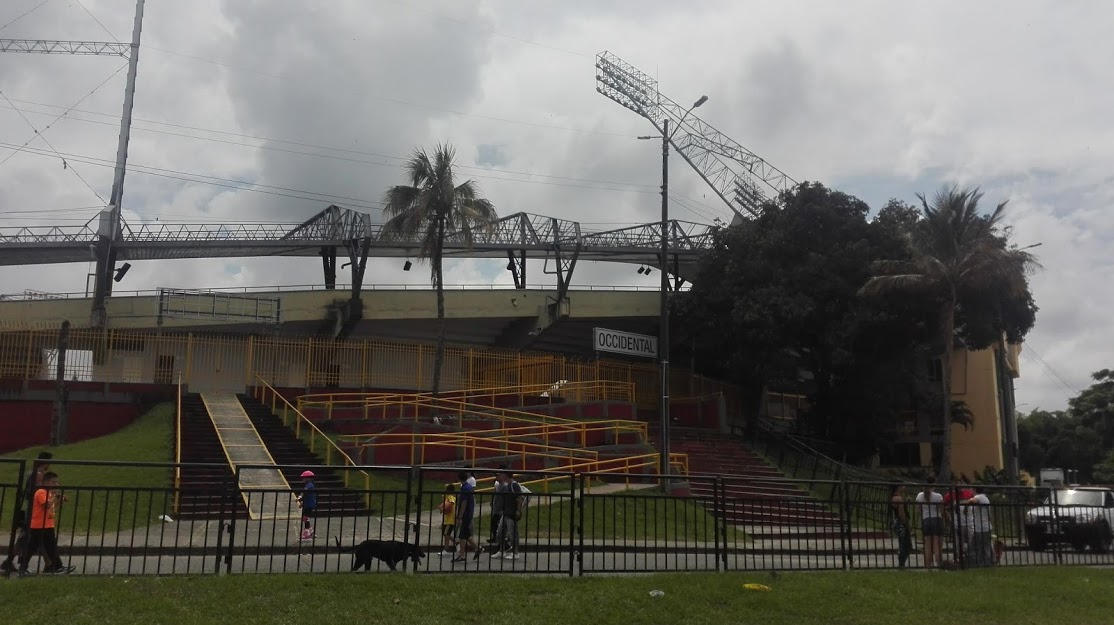 Western Entrance Zone Centenario Stadium of Armenia, Quindío, Colombia